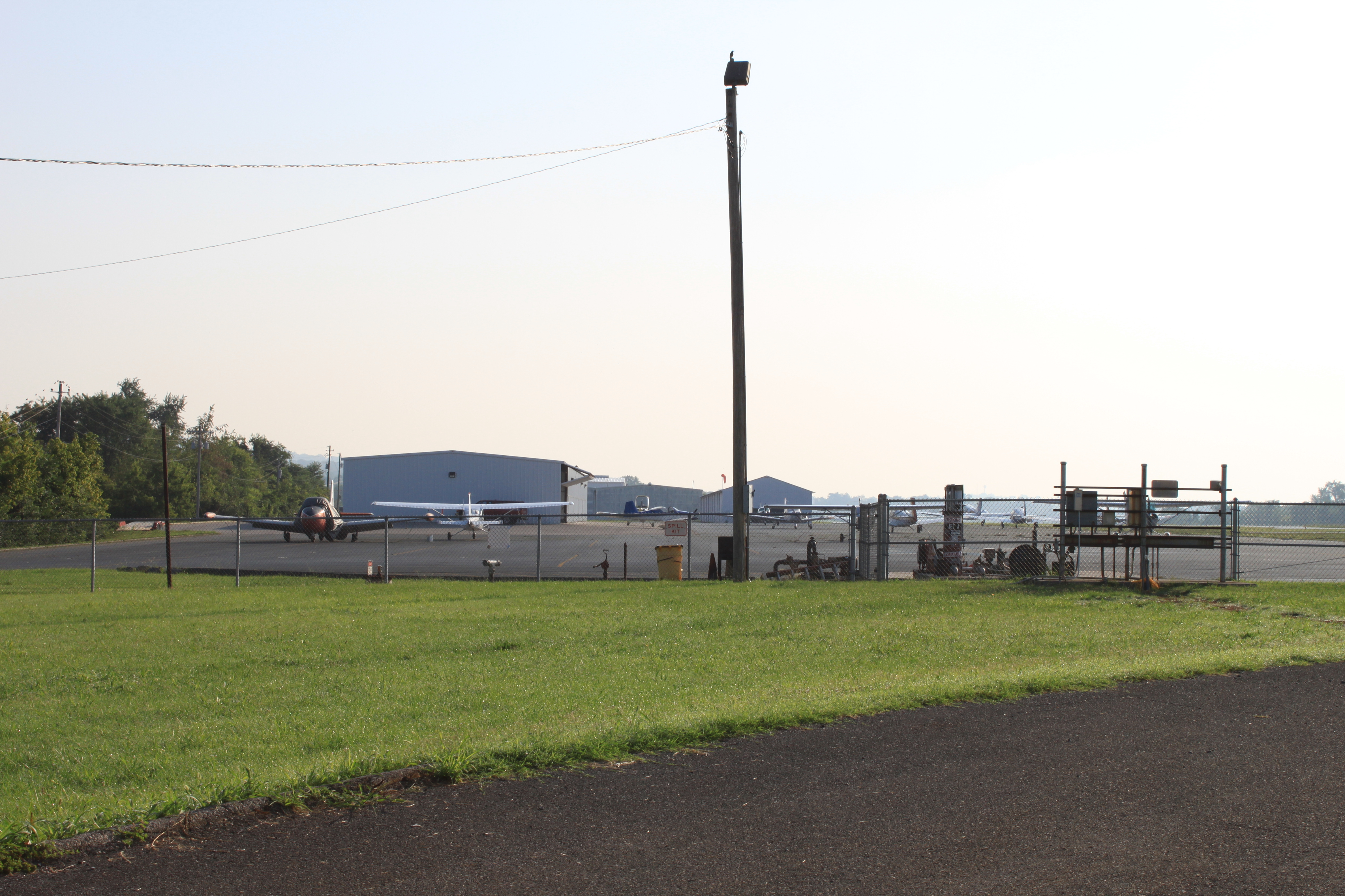 Moore-Murrell Airport, Morristown, Tenessee, planes on tarmac area